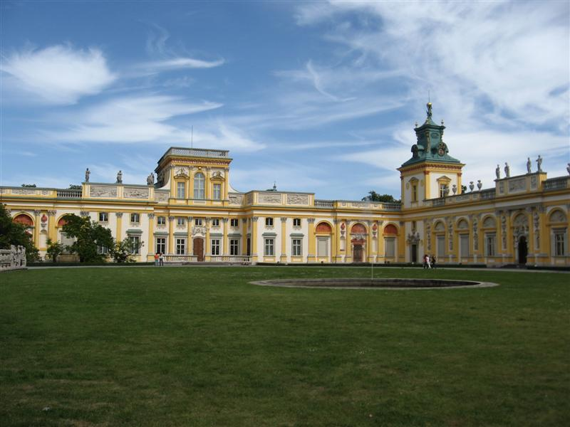 Wilanów Palace in Warsaw